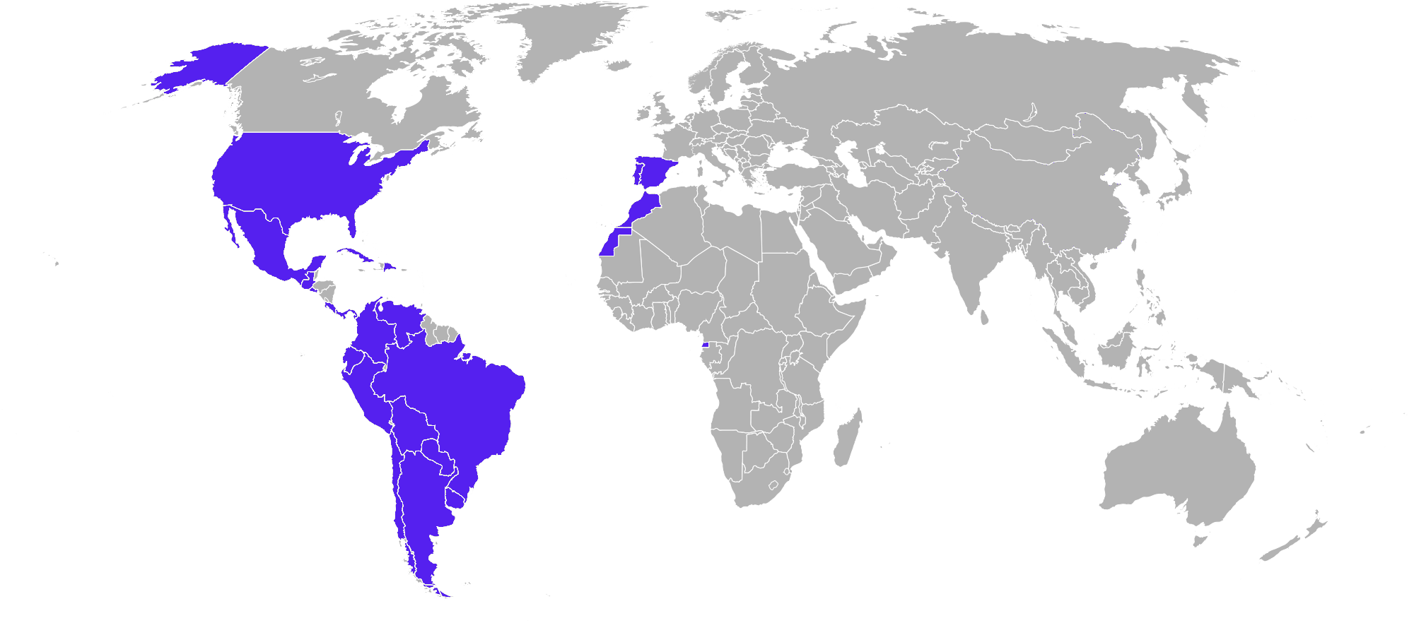 Países representados en la Exposición Iberoamericana de 1929. Plantilla de